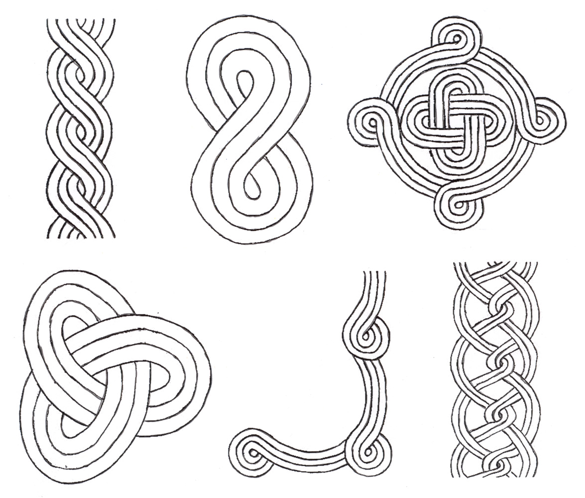 Croatian wattle. Includes triquetra or trefoil knot (lower left) and Solomon's Knot (in loop at upper right).